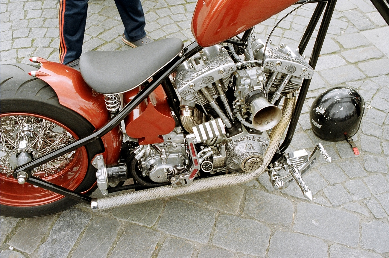 Chain Erection, a Harley chopper at the bike show Mansen Mäntä Messut in the Central Square of Tampere, Finland. It's powered by a Shovelhead engine.